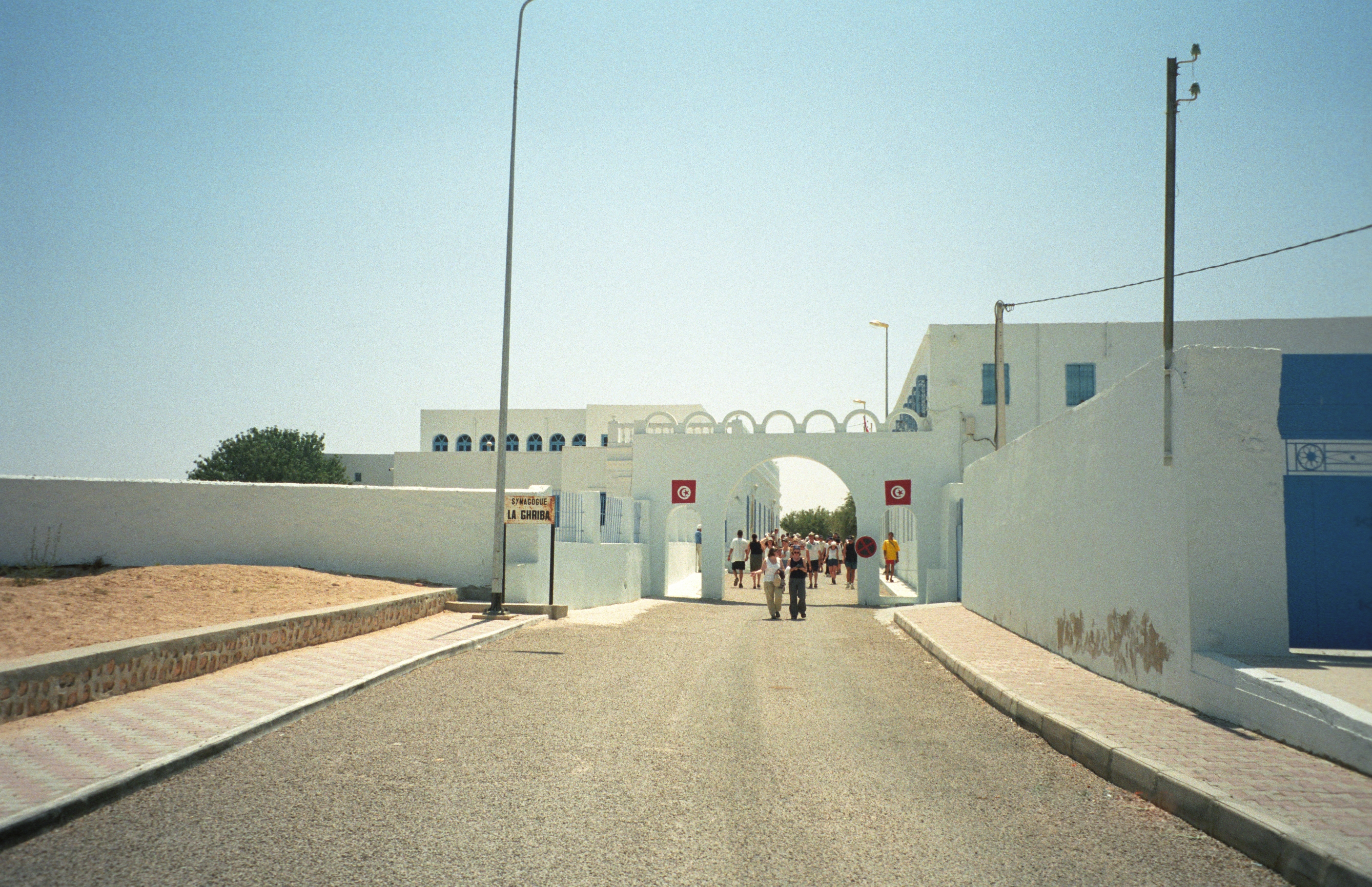 a view from the parking lot. i'm not sure why i took this photo at the time, but i'm glad i did in retrospect. this shot happens to show where the fuel tanker truck drove into the entrance during the 2002 terrorist attack attributed to al-qaeda